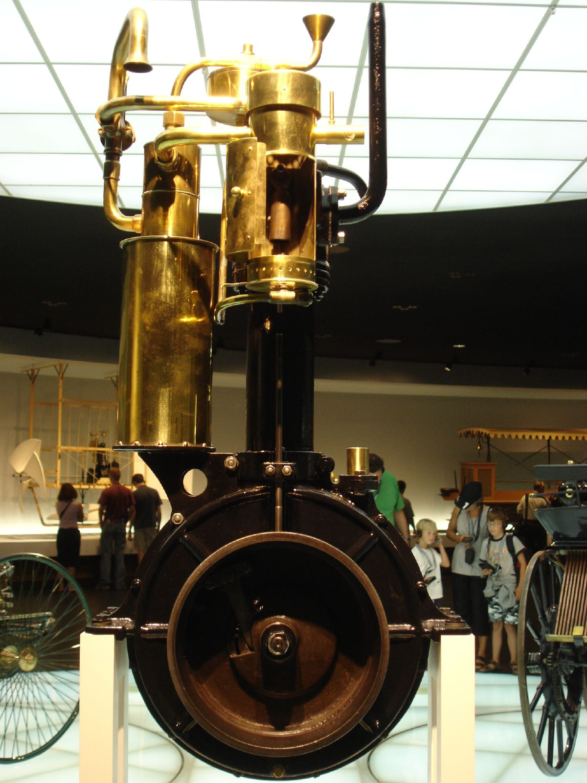 Called the Grandfather Clock - 1886 Daimler single cylinder engine. It was the world first small high speed internal combustion engine to run on gasoline. The engine was given the epithet because it resembled the grandfather clock.